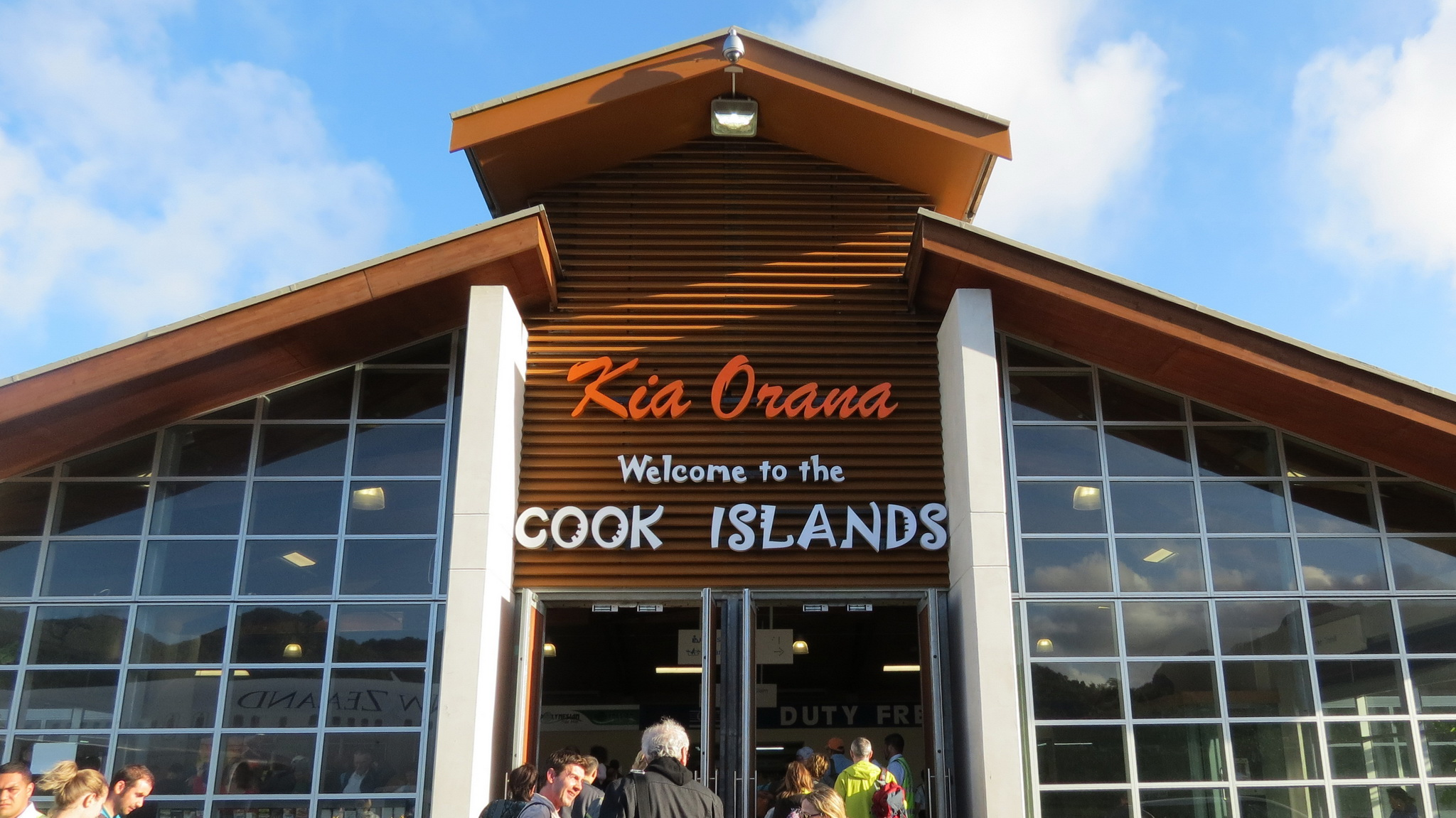 Rarotonga International Airport, Avarua, Rarotonga